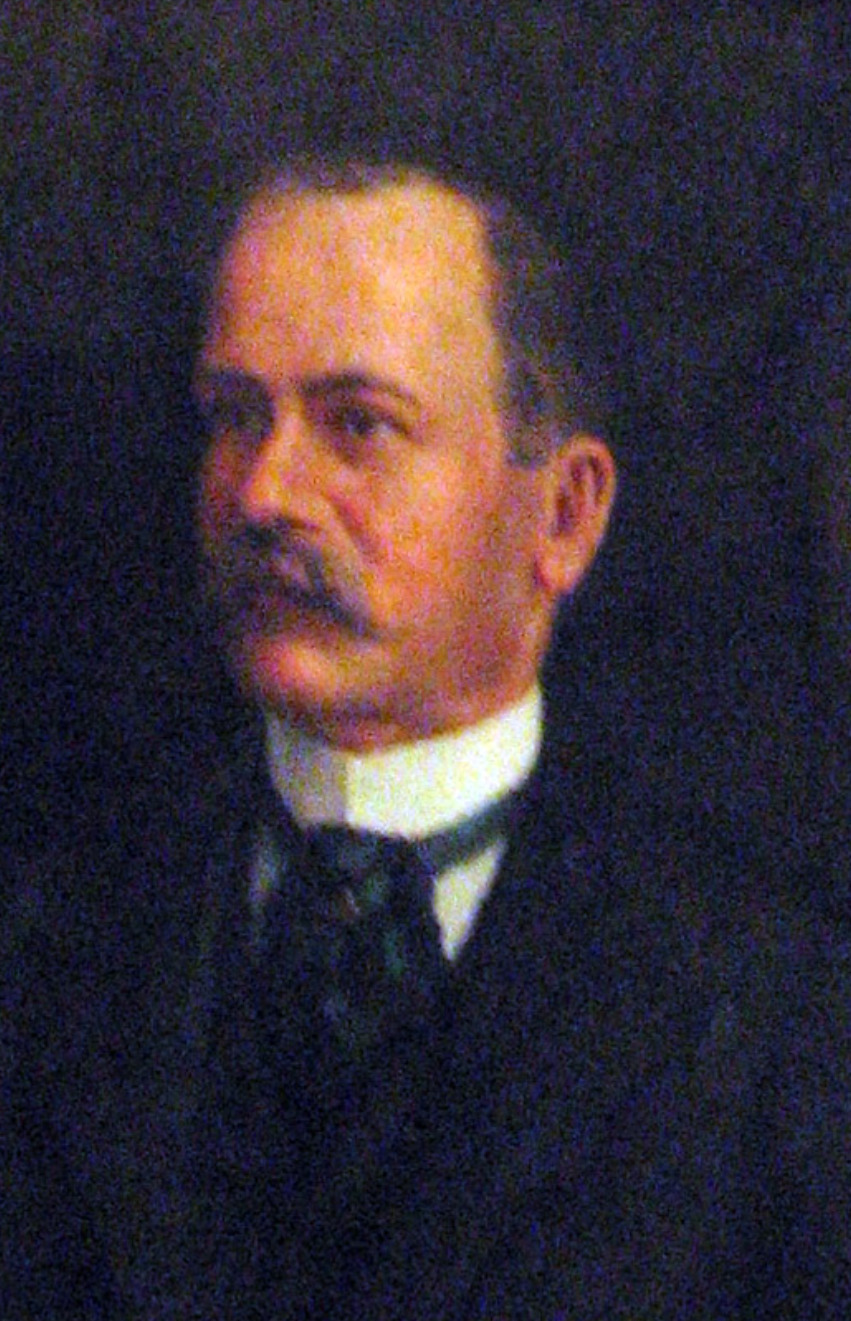 Official portrait of Albert P. Morehouse in Missouri State Capitol